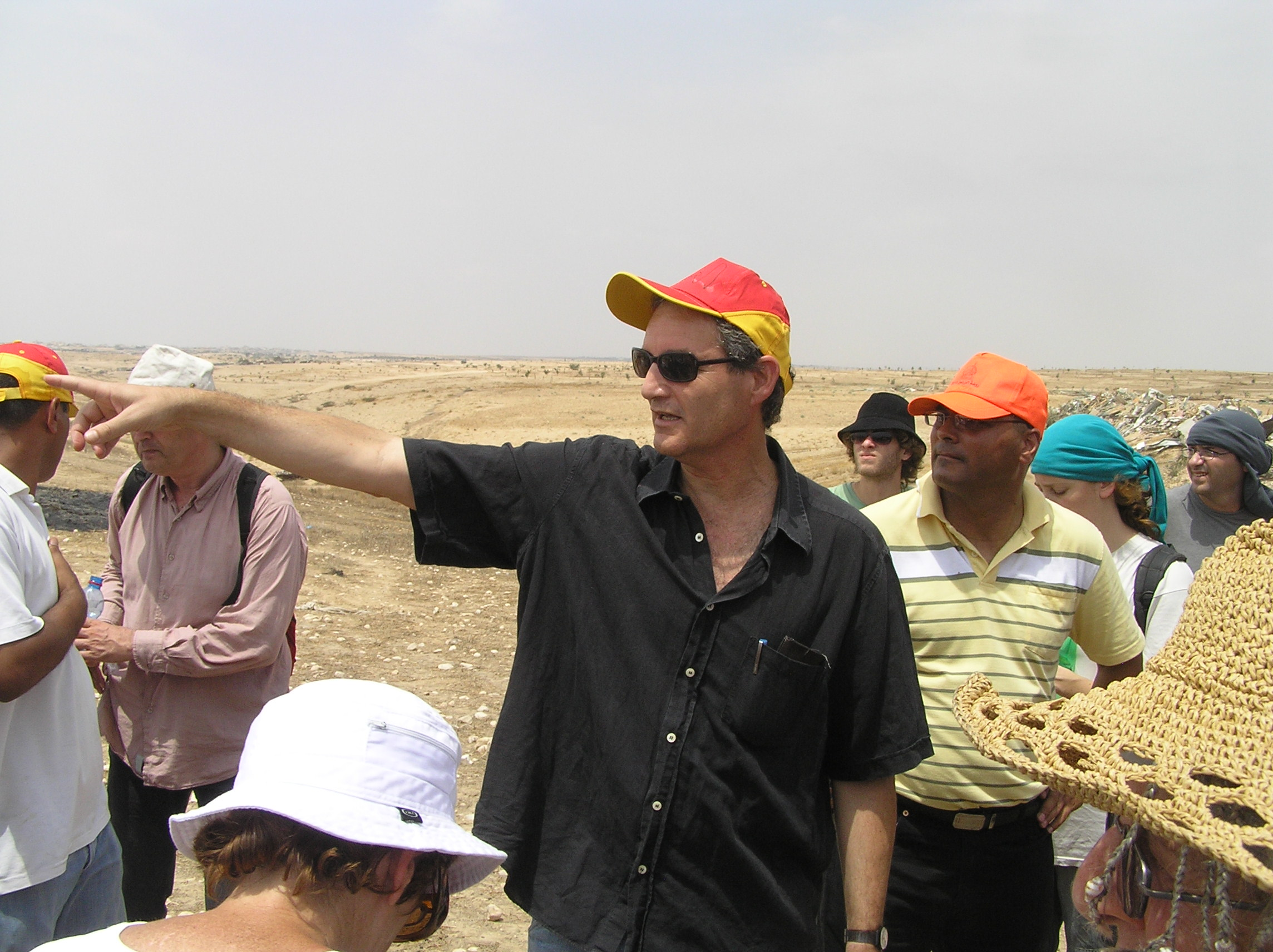 Oren Yiftachel in Al-Araqeeb after its demolition